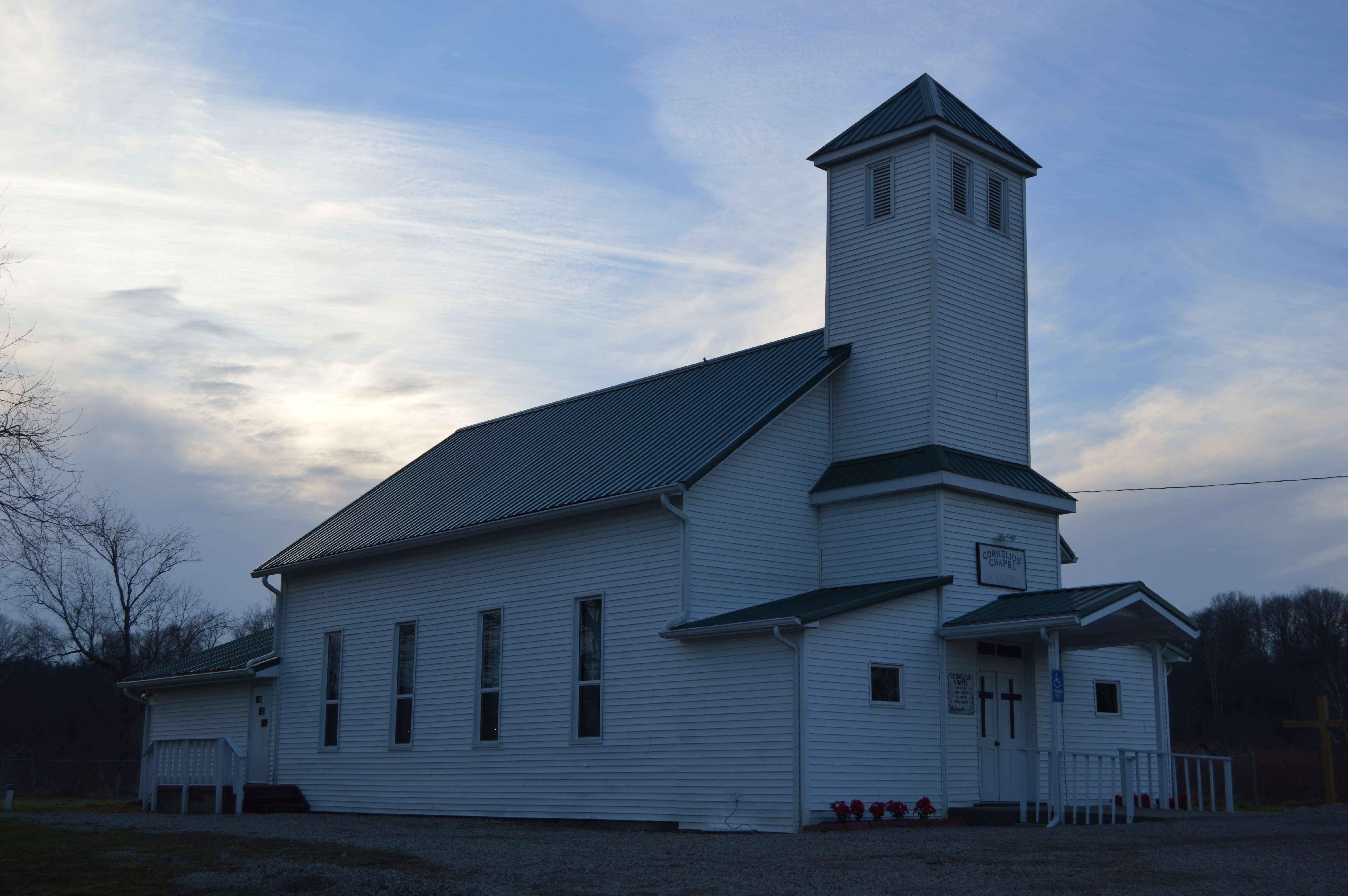 Front and southeastern side of Cornelius Chapel, located on Karns Road in Creola, Ohio, United States.